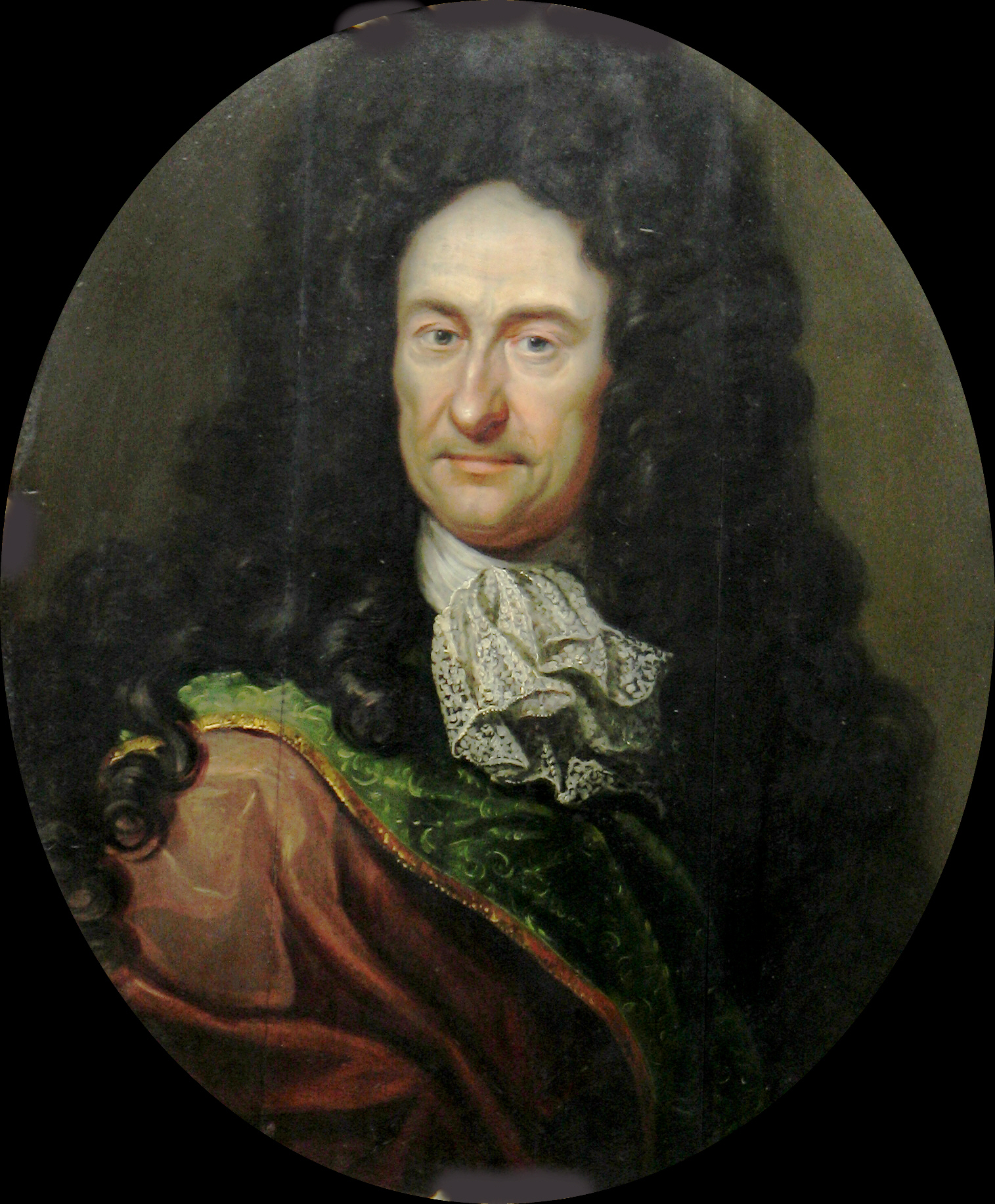 Potrtrait of Gottfried Wilhelm Leibniz (1646-1716)